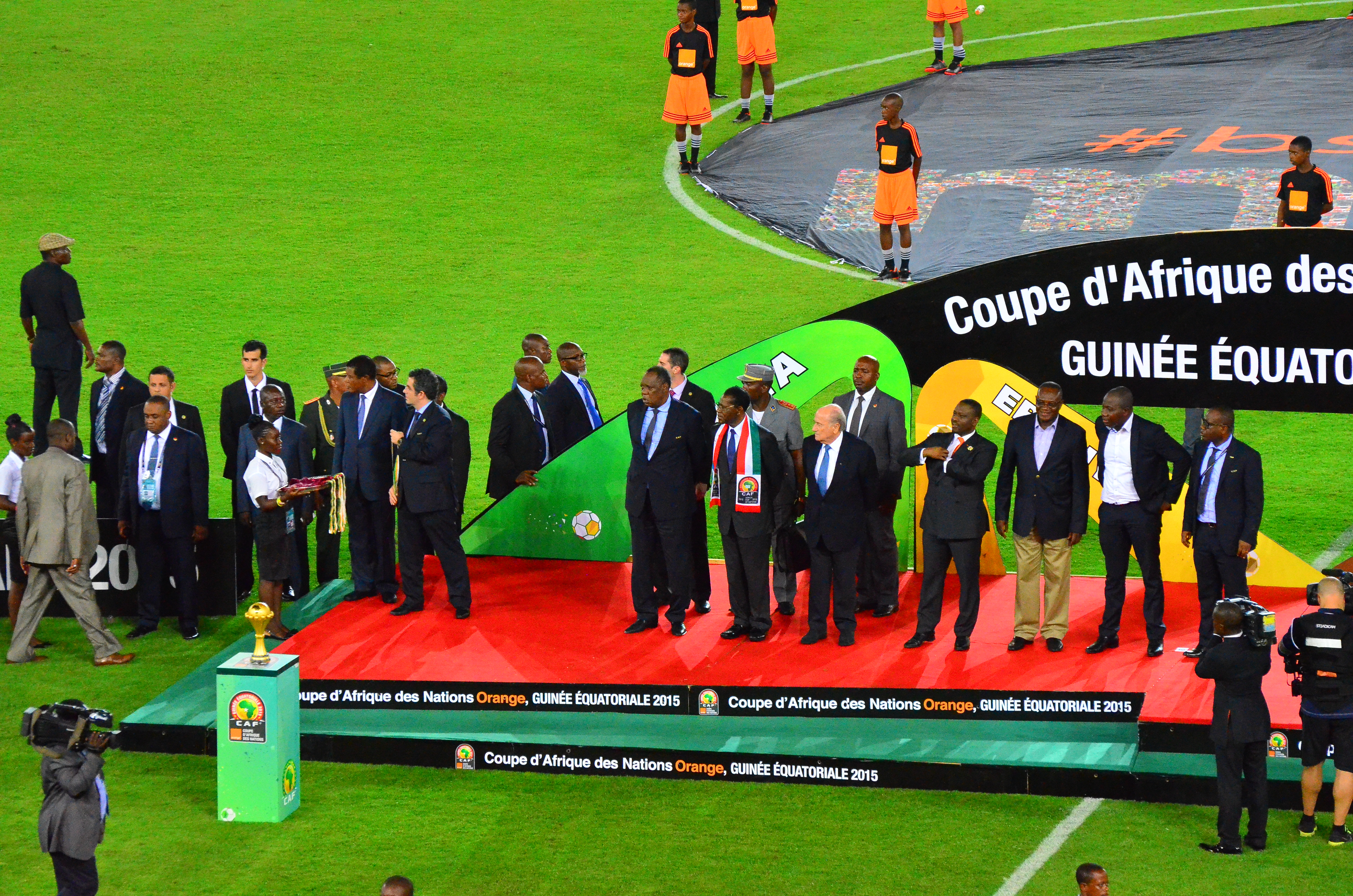 This is a picture of a soccer game (name of it is on file name).